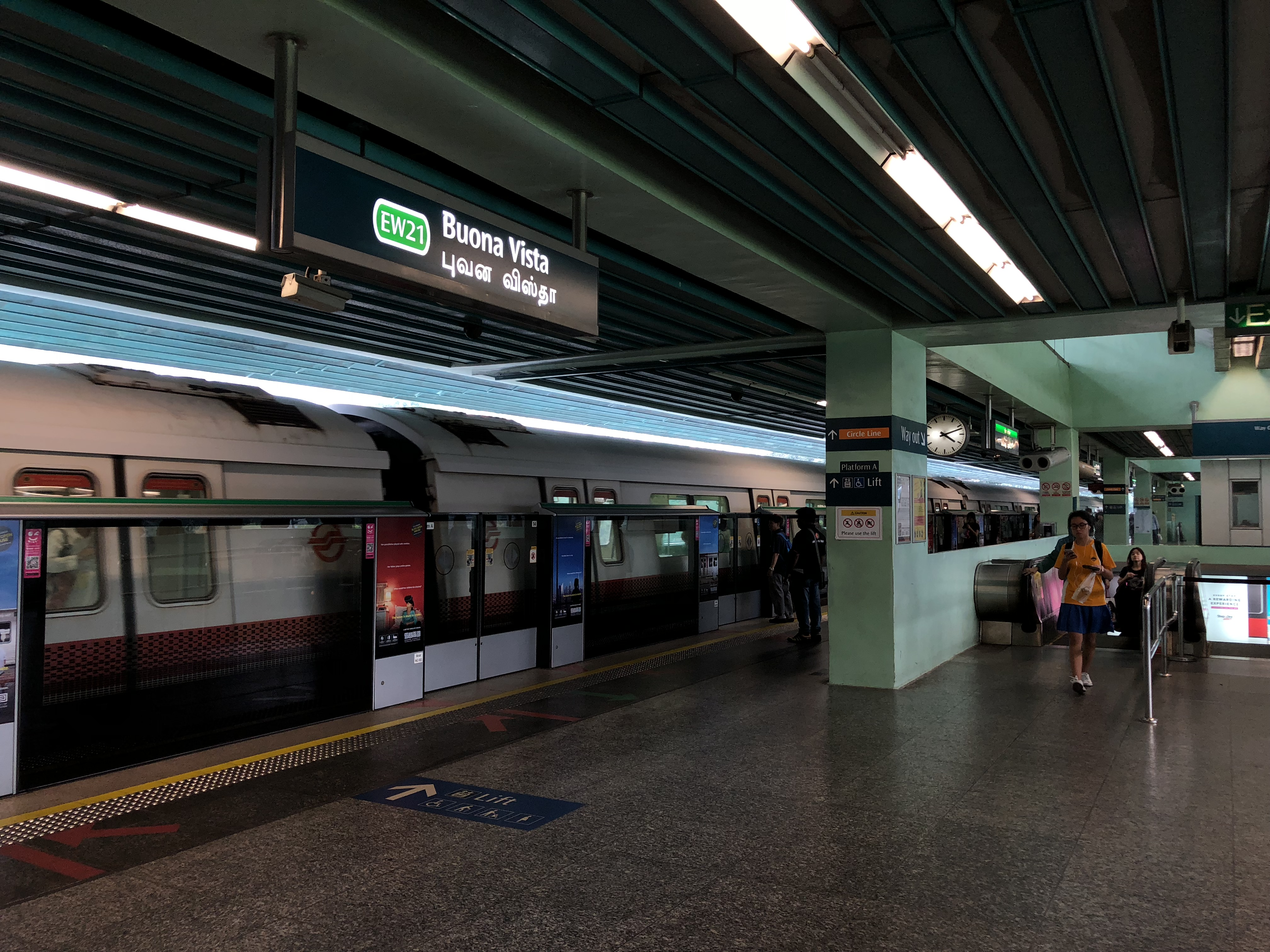 Buona Vista MRT Station with the new signage.